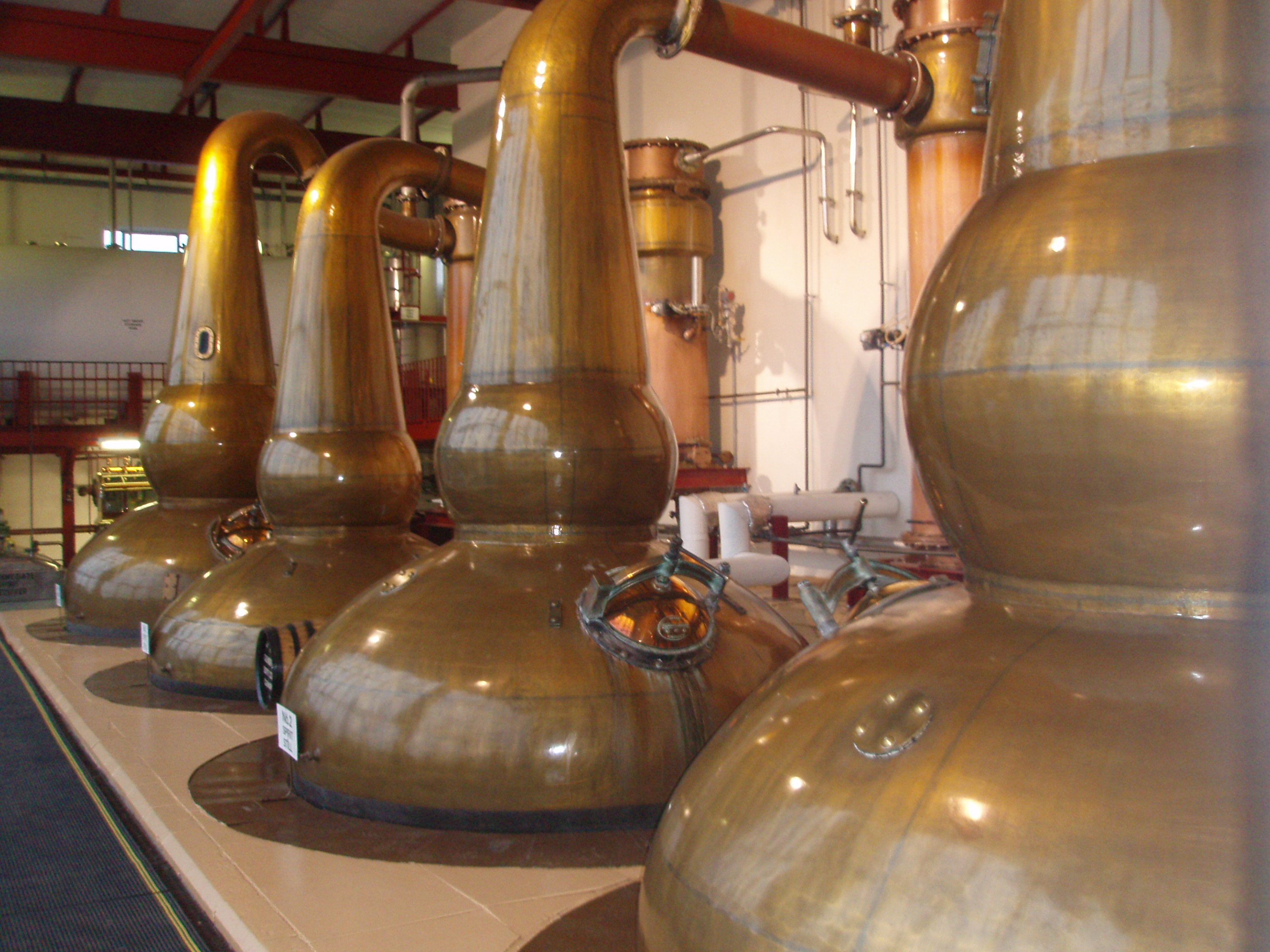 Whisky pot stills at the Glendronach distillery